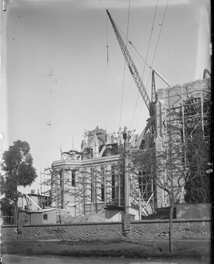 St Mary's Cathedral, Perth, in 1929 while major expansion works were underway.